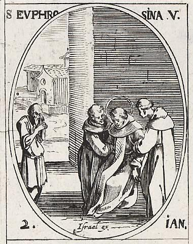 Saint Euphrosyne of Alexandria's death, drawn by Jacques Callot, 1630-36, for a Saints Calendar book.